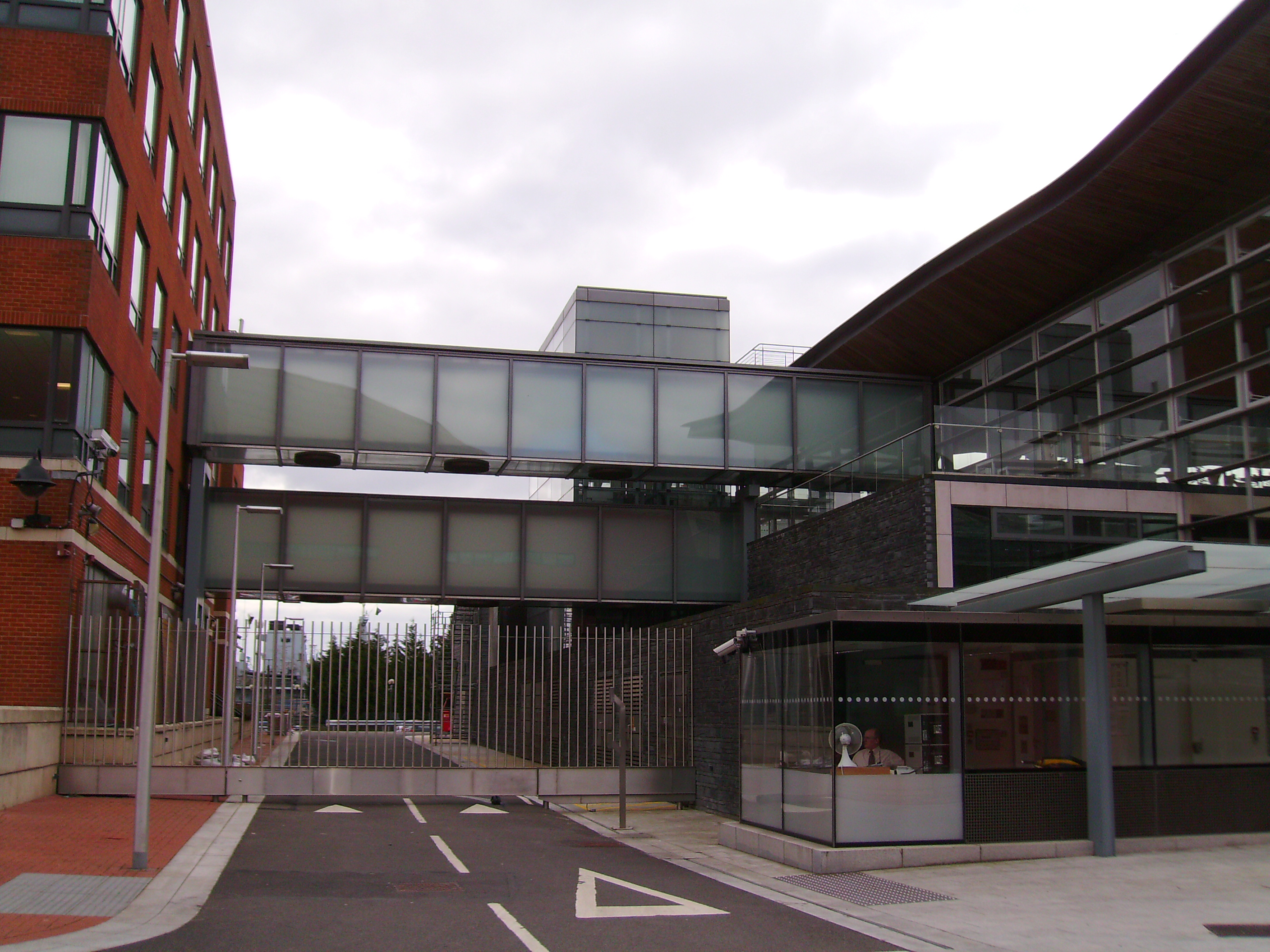 The two Link Bridges between Ty Hywel (left), formerly known as Crickhowell House, and the Senedd (right), Cardiff Bay, Wales